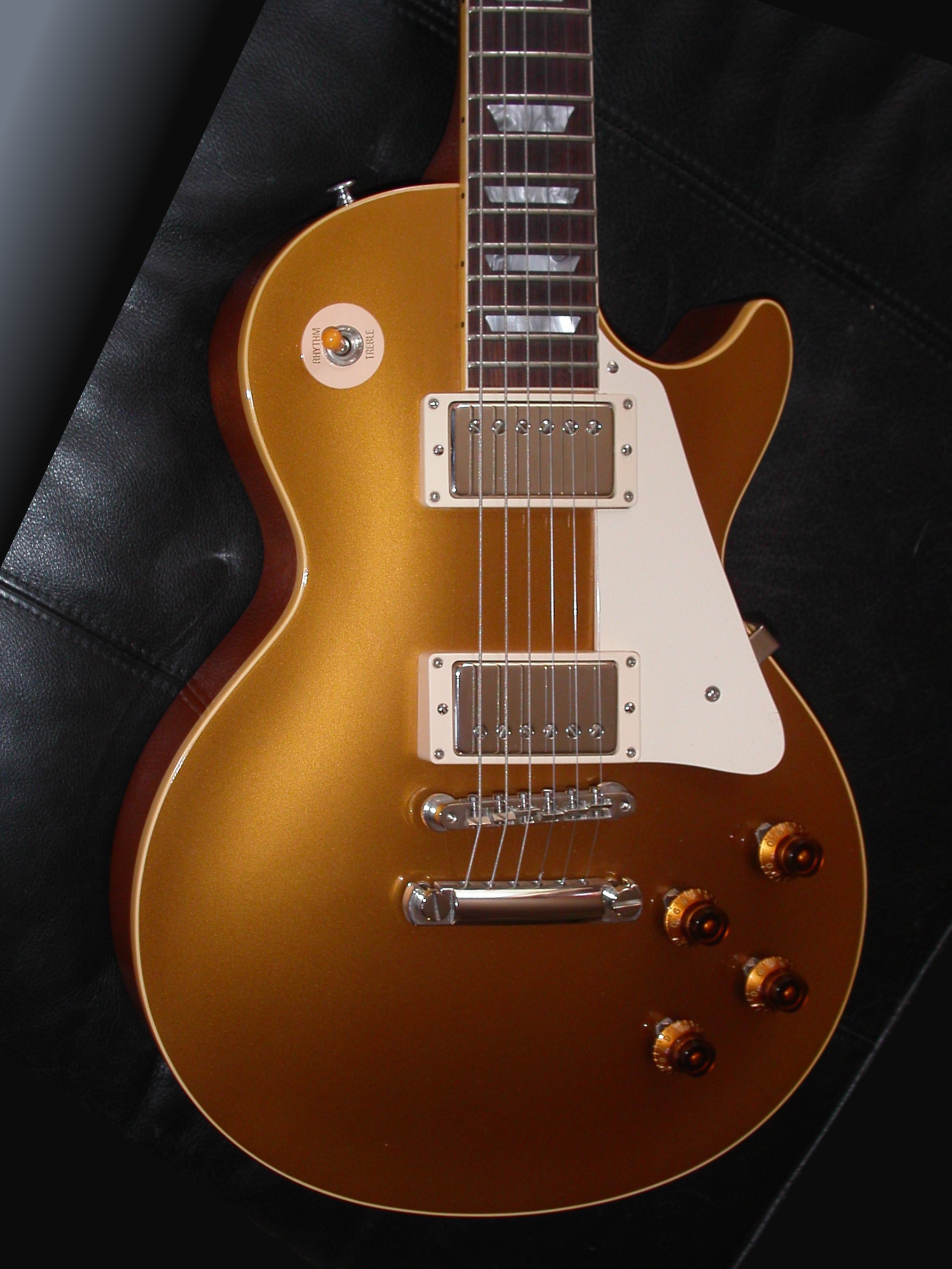 2002 Gibson Les Paul Historic Custom Shop '57 Reissue Goldtop Mmmm, mmm good.